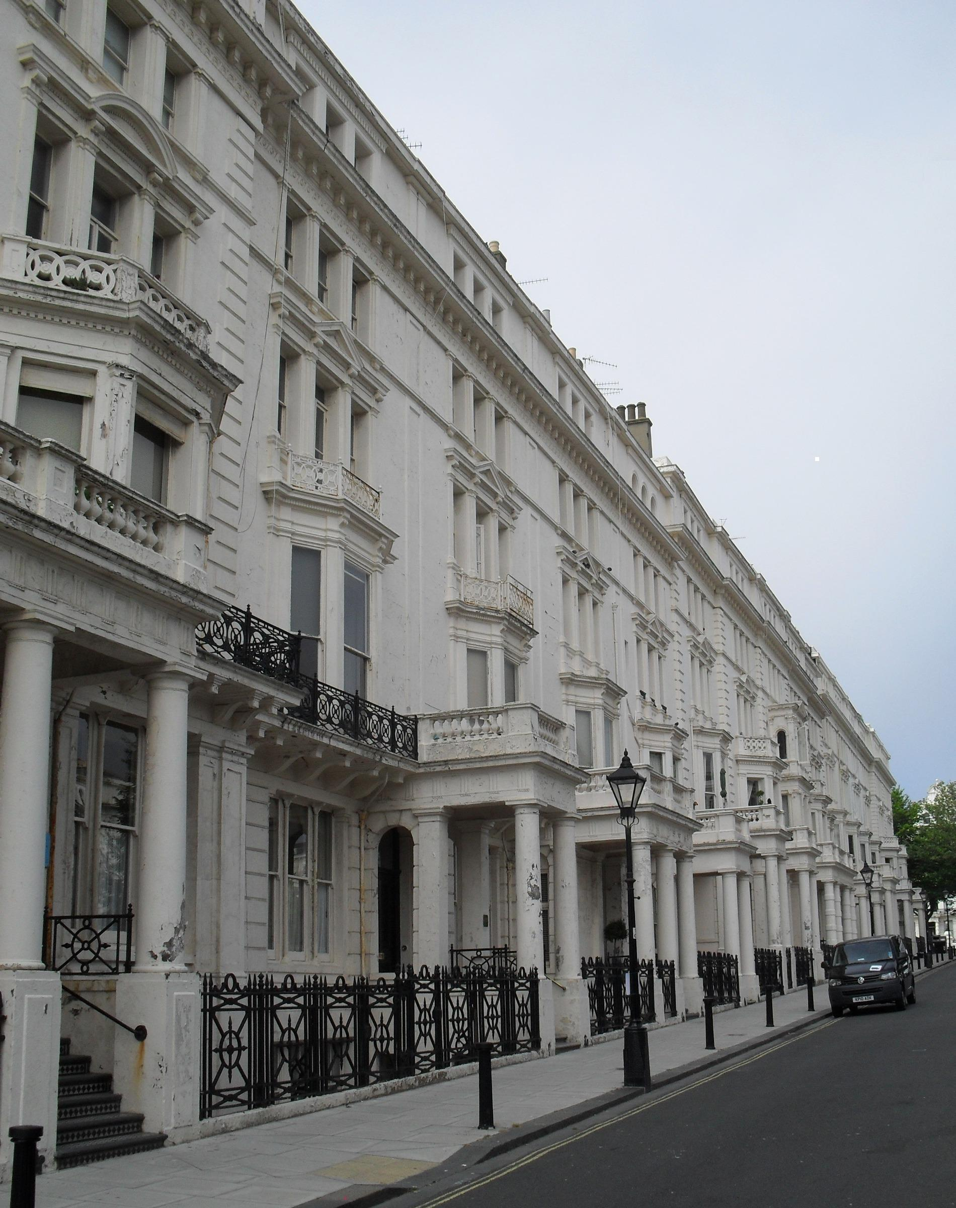 18–30 Palmeira Square, Hove, City of Brighton and Hove, England. Built in the 1850s and 1860s; this is the west side of the square. Listed at Grade II by English Heritage (NHLE Code 1187581)